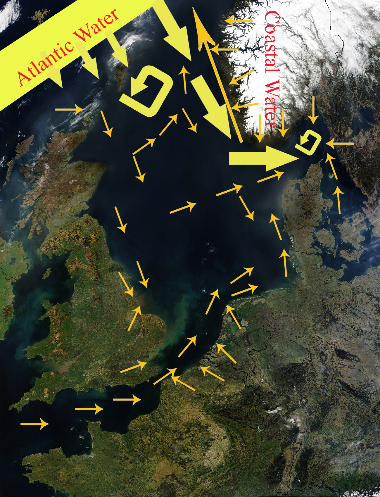 North Sea Map derived from NASA satellite image. This image depicts the currents in the North Sea. The dark yellow broad arrows show the current and amount of flow from the Atlantic Ocean entering the northern area of the North Sea The smaller light yellow arrows represent the coastal waters from various rivers which drain land areas via their tributaries and discharge into the North Sea, as well as the current from the Atlantic Ocean entering through the English Channel. Sources used to base this map upon were Safety at Sea currents and North Sea physiography (depth distribution and main currents) Guide to the Oceans By John Pernetta page 184 It would be nice to re-do this map with wiggly flowing arrows for the water currents.